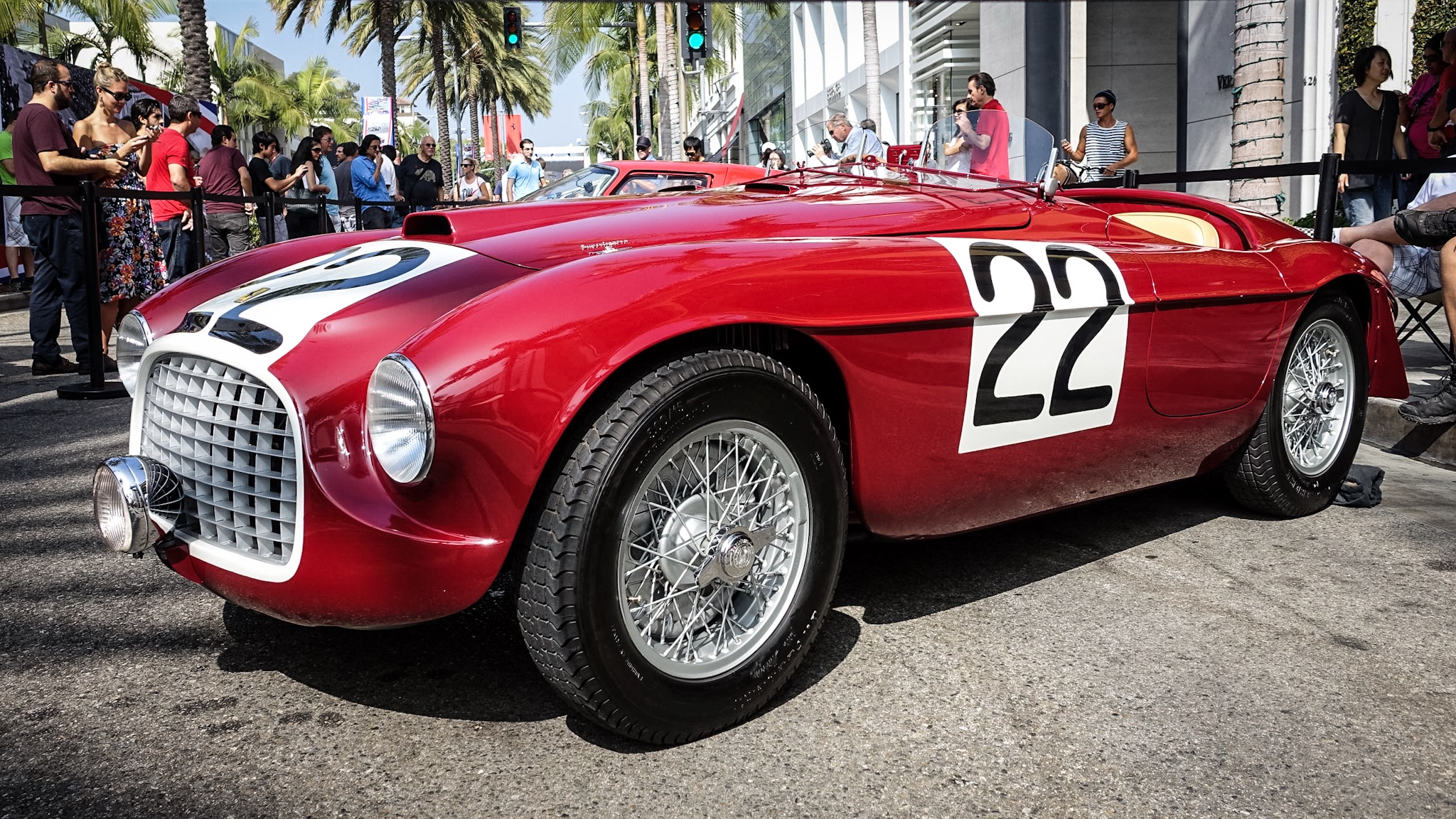 Winner 1949 24 Hours of LeMans For many enthusiasts the 24 Hours of LeMans is the most important race in the world, and this is the first Ferrari ever to win that event. Luigi Chinetti and Lord Selsdon were the drivers at LeMans, but Selsdon was ill the day of the race, and drove only 20 minutes; Chinetti drove 23 hours and 40 minutes of the 24 hours. That feat and the performance and reliability of the Ferrari helped establish the company's reputation.